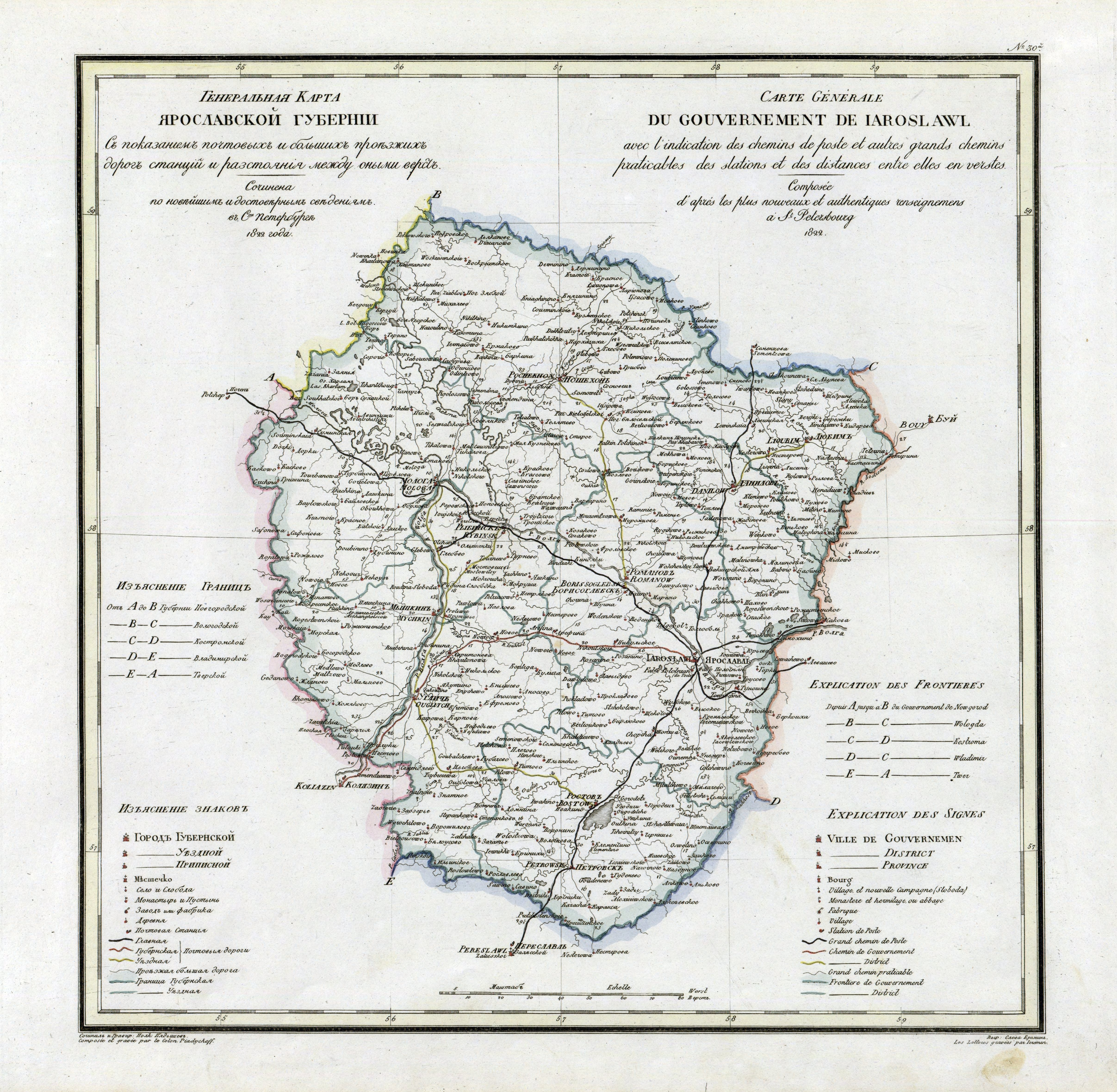 Yaroslavl governorate